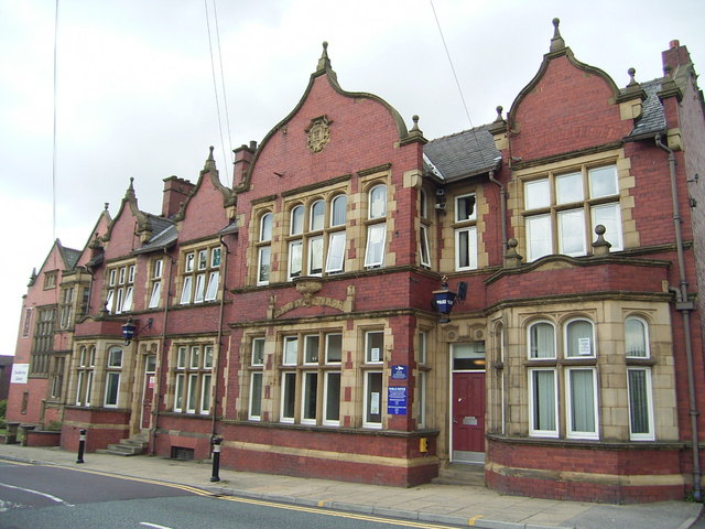 Chadderton Police Station, in Chadderton, Greater Manchester, England.